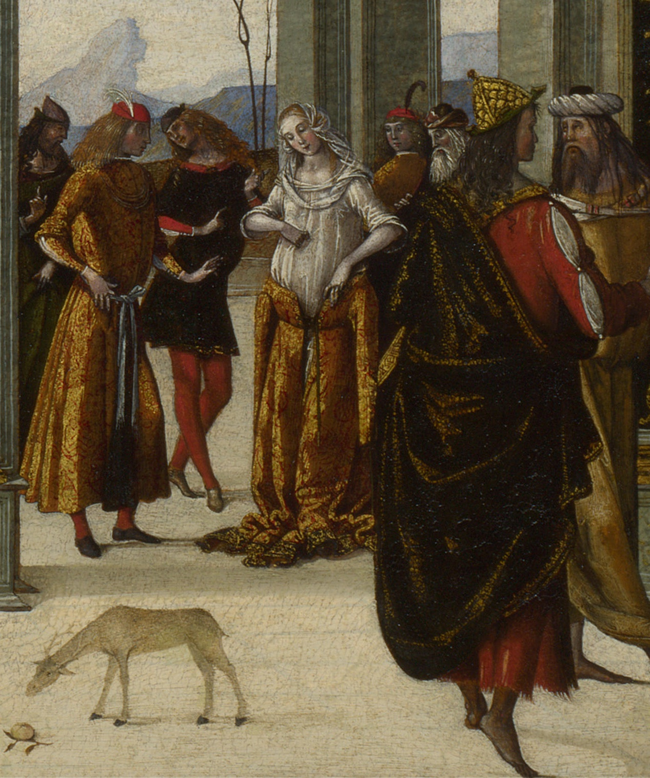 This painting is part of the group: Spalliera Panels with the Story of Patient Griselda